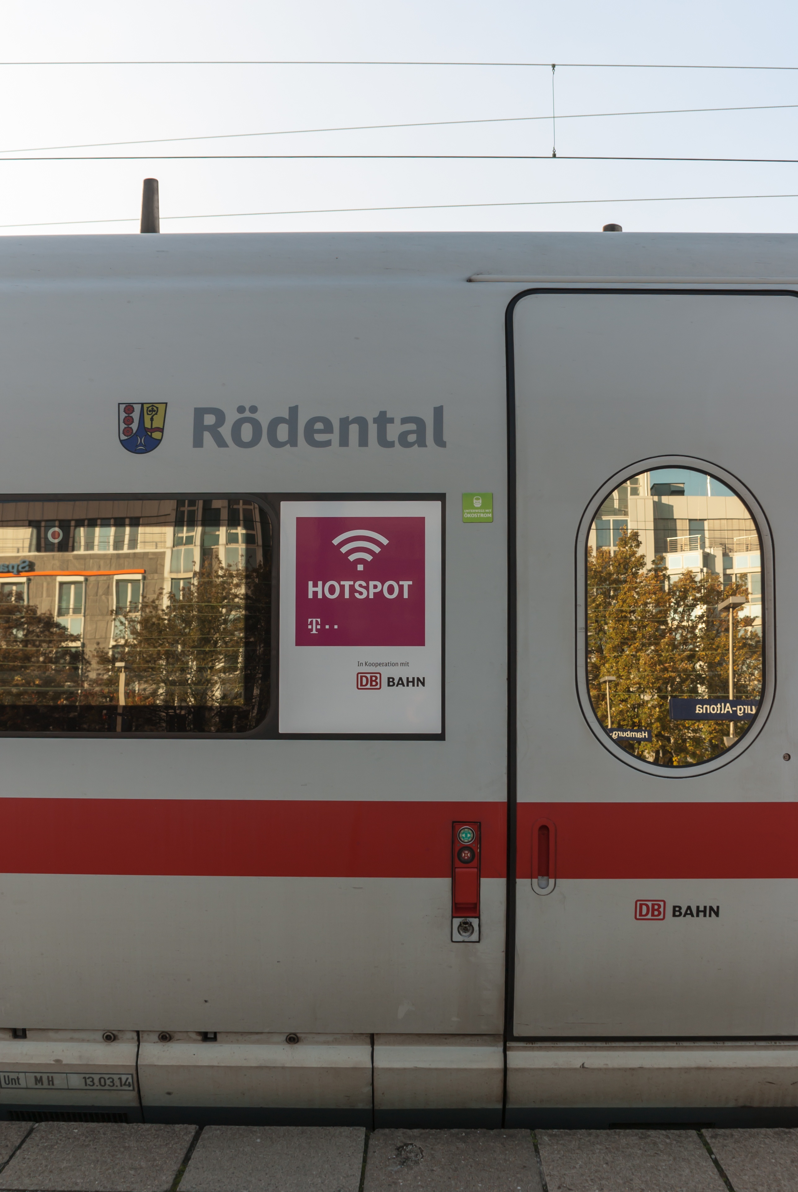 ICE T class 411) "Rödental" at Hamburg-Altona station